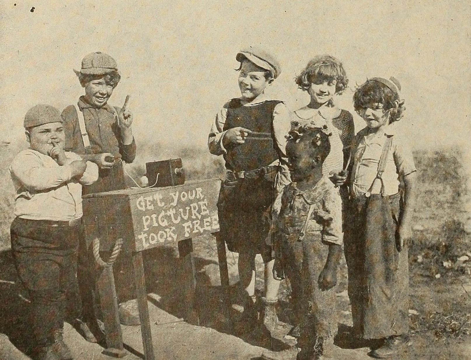 Exhibitor's Trade Review